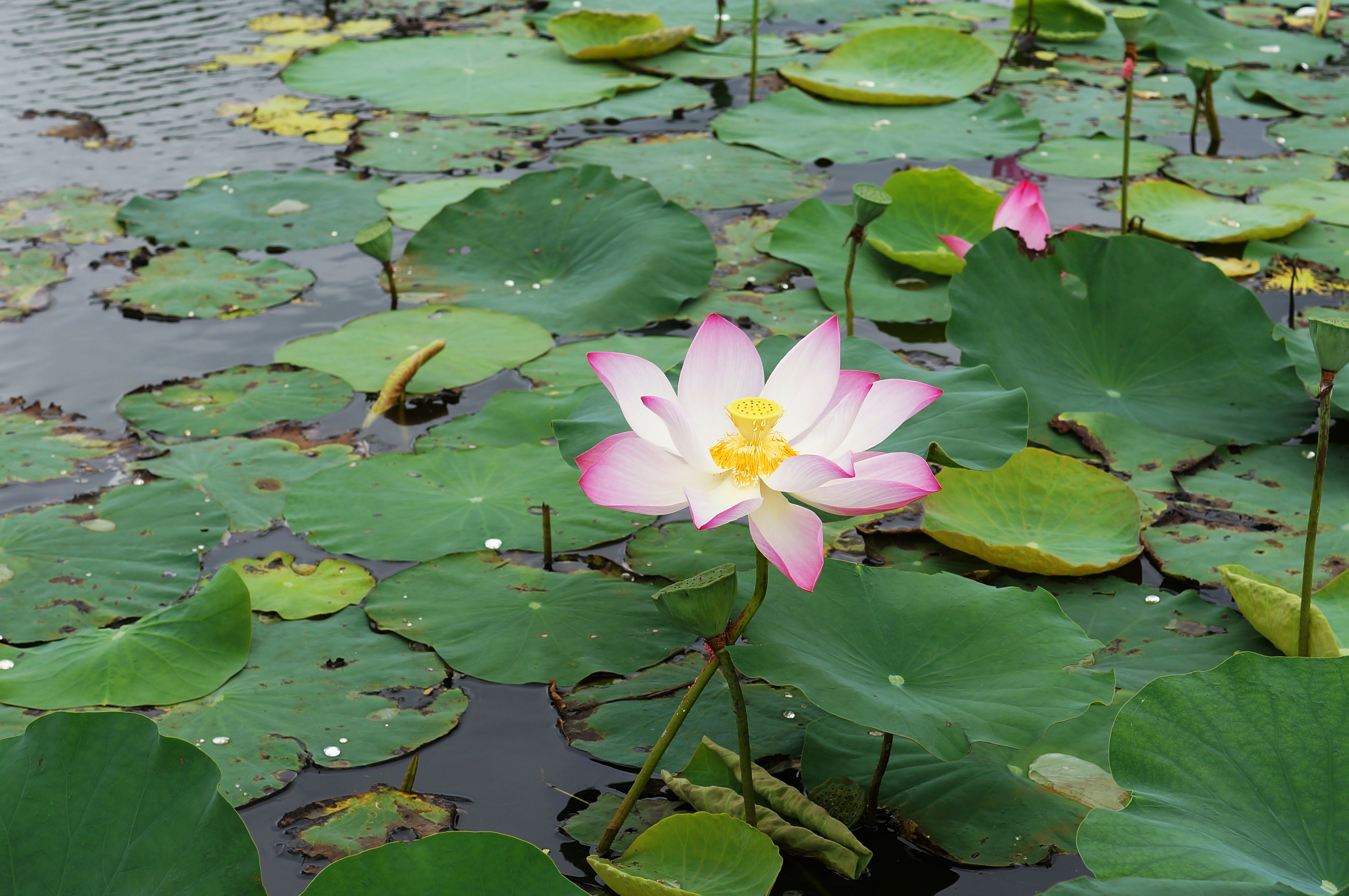 A pink lotus